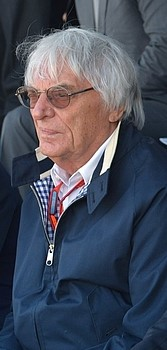 Cropped image of Bernie Eccelstone